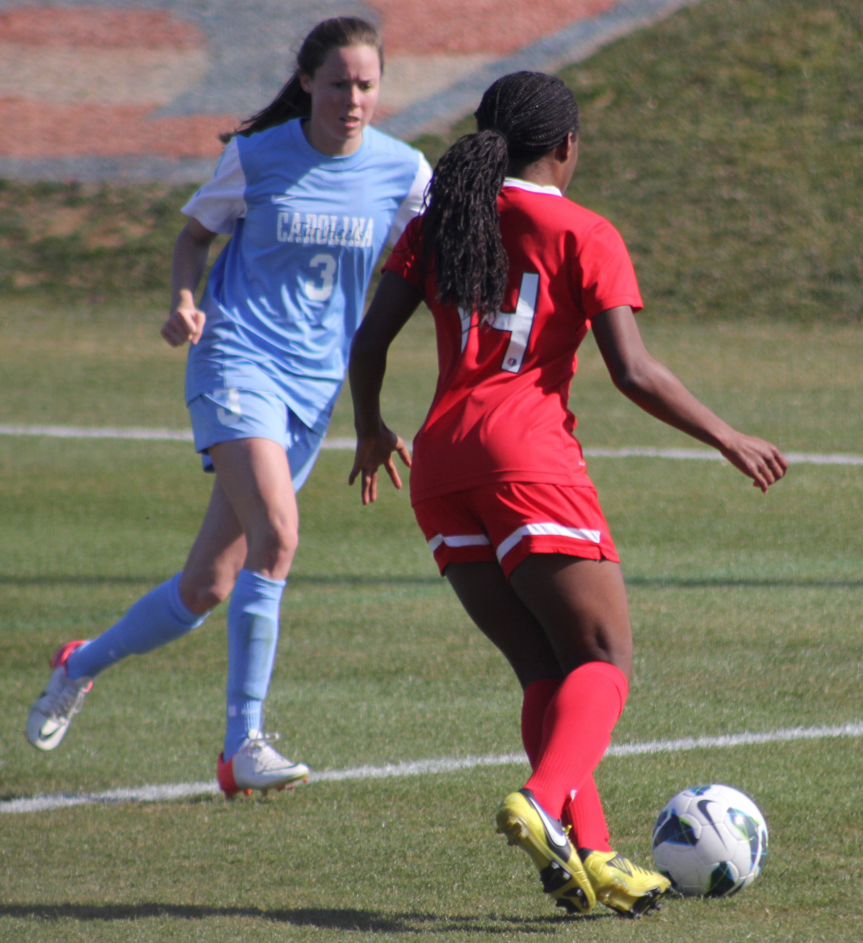 Megan Brigman (UNC Tar Heels) v Tiffany McCarty (Washington Spirit)